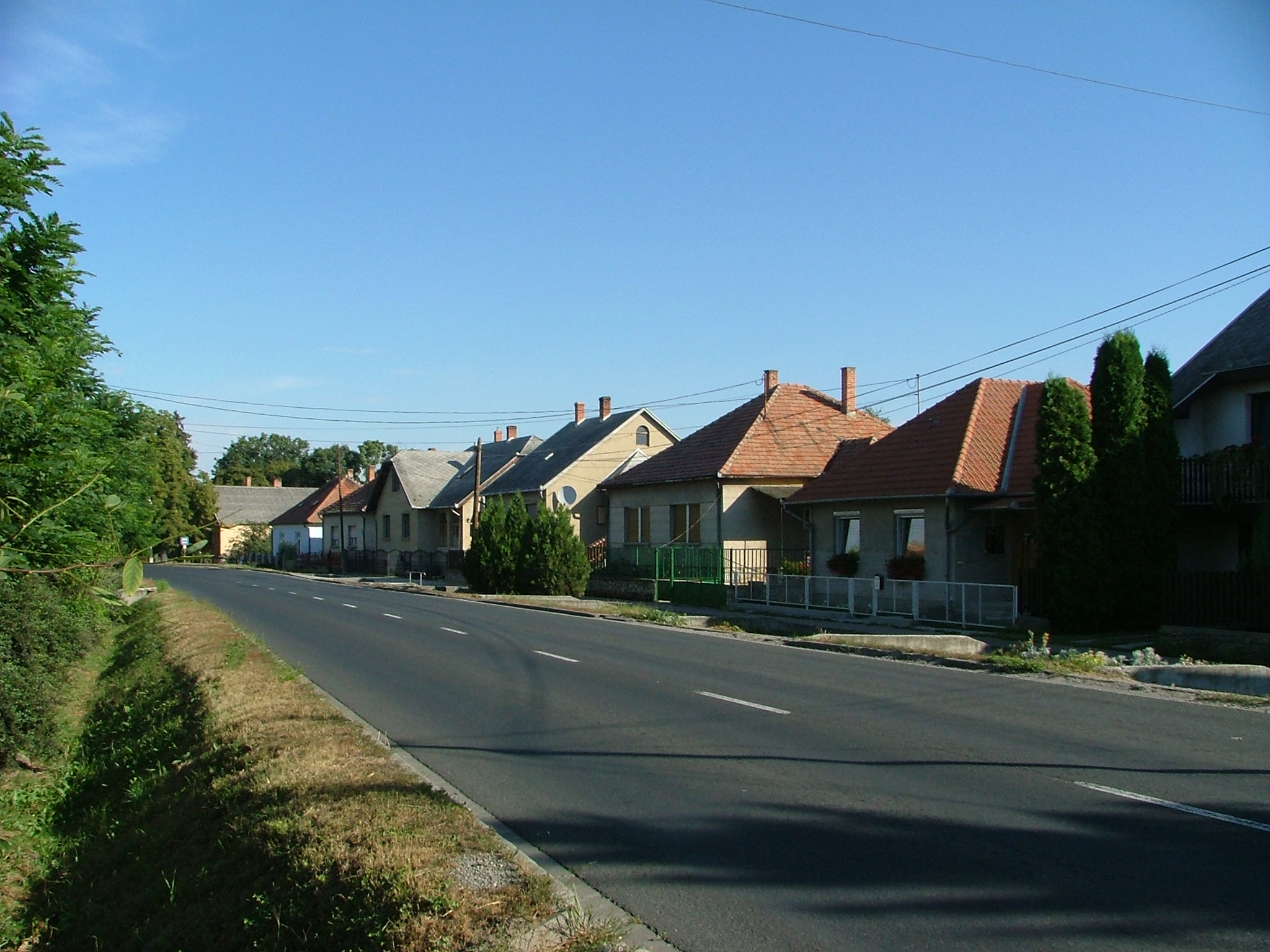 Hungarian state road 86 in Szilsárkány, Hungary